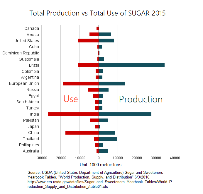 Sugar production vs consumption of principal countries 2015